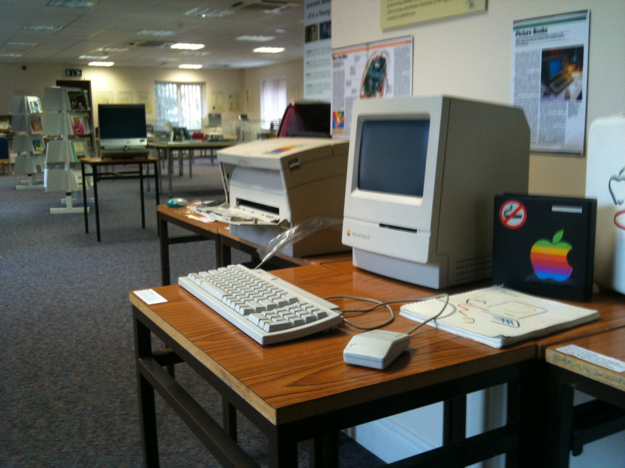 Apple computer on display at The National Computer & Communications Museum.